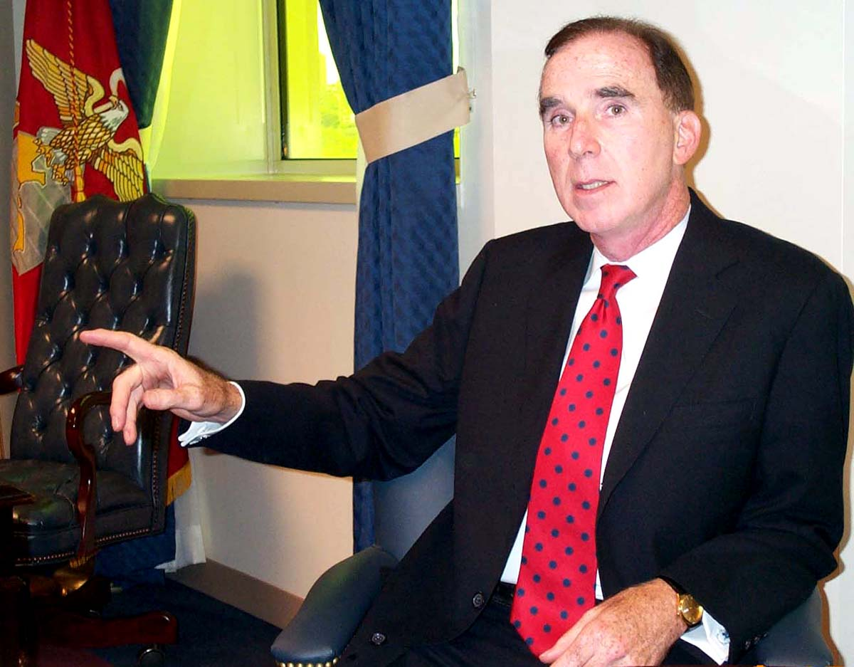 Peter M. Murphy, the senior legal advisor to the Marine Corps' Commandant, in his 4E470 Pentagon office Aug. 15. Murphy is near where he was standing the morning of Sept. 11, 2001; he is gesturing in the direction where he watched television reports that morning of airplanes flying into the New York World Trade Center Twin Towers. Moments later, the terrorist-hijacked airliner plowed into the Pentagon's west wall, just yards away from Murphy's office. The Marine Corps' flag in the corner remained standing after the attack. Photo by Gerry J. Gilmore